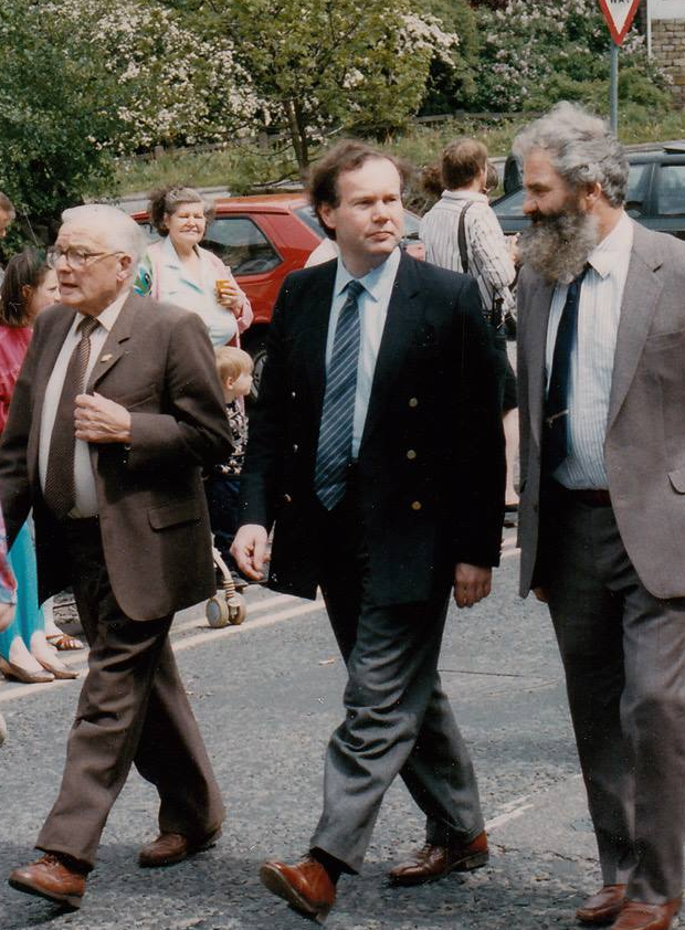 During the 1990s.